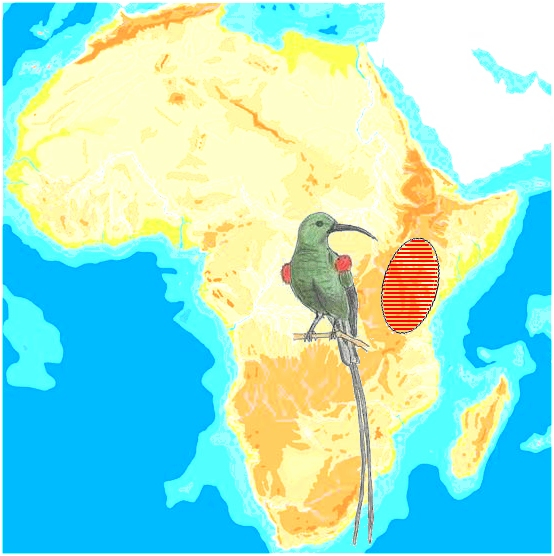 Geographical distribution of Nectarinia johnstoni